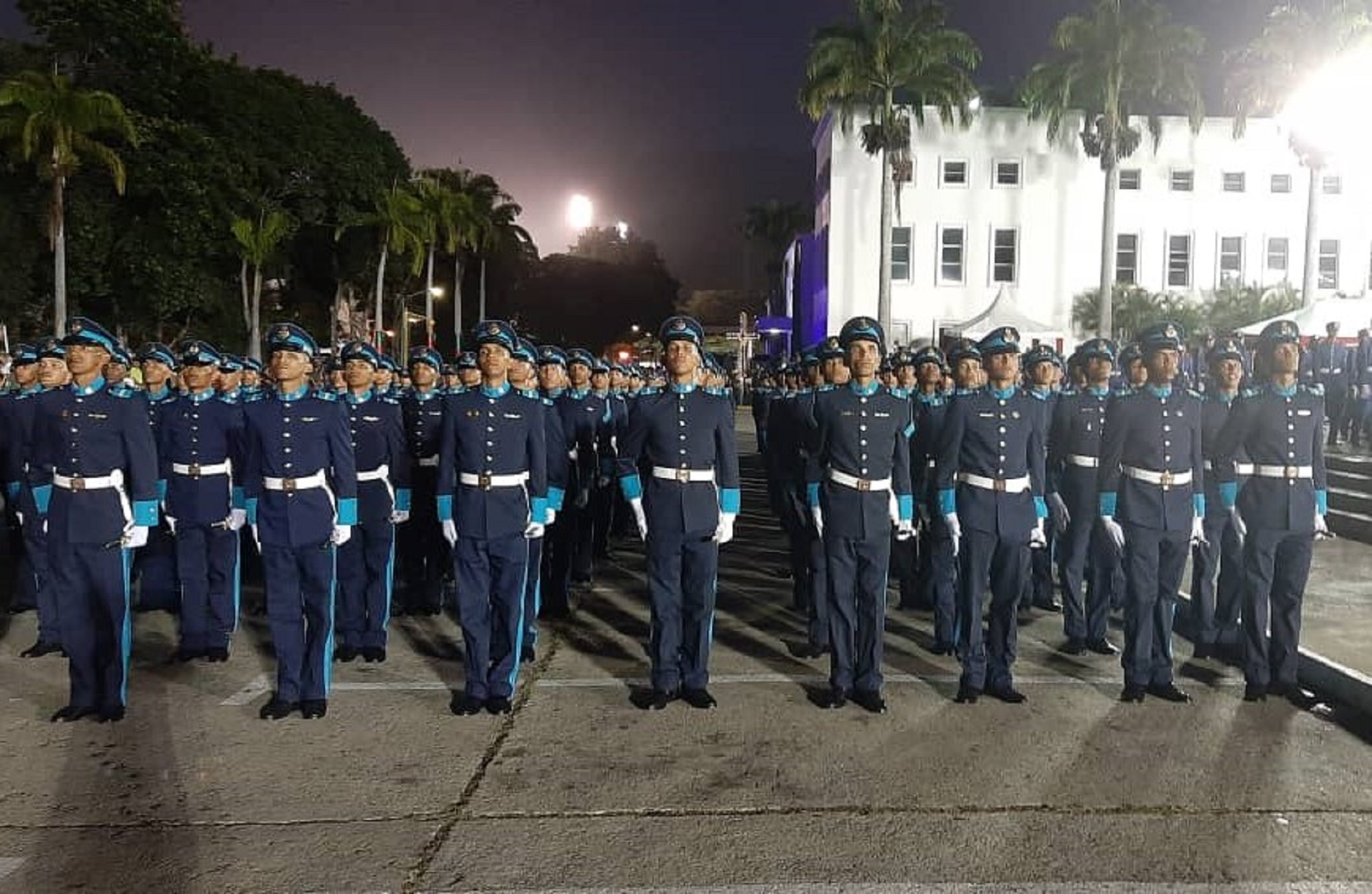 Investiture of 1st Year Cadets of the Military Academy Commander in Chief Hugo Chávez Frías (AMHCH) of the Bolivarian Military University of Venezuela, held in the courtyard of honor of said Institution. The activity was held on 11/6/2019